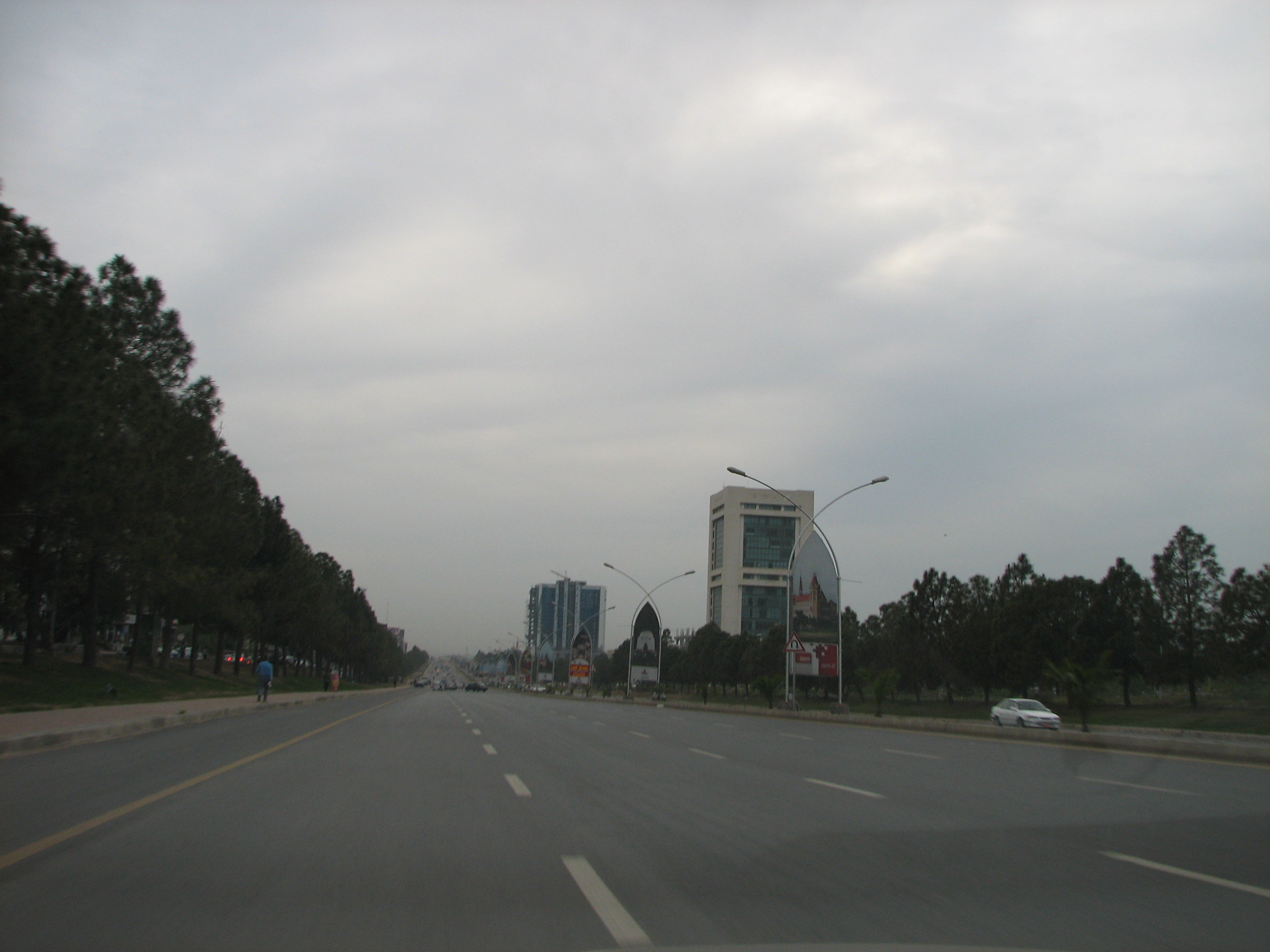 An 8 lane main avenue (Jinnah Avenue) in Islamabad, Pakistan.